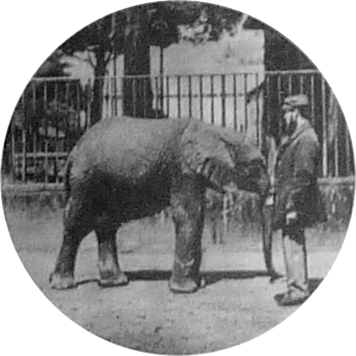 Elefant Jumbo als Kalb mit Matthew Scott